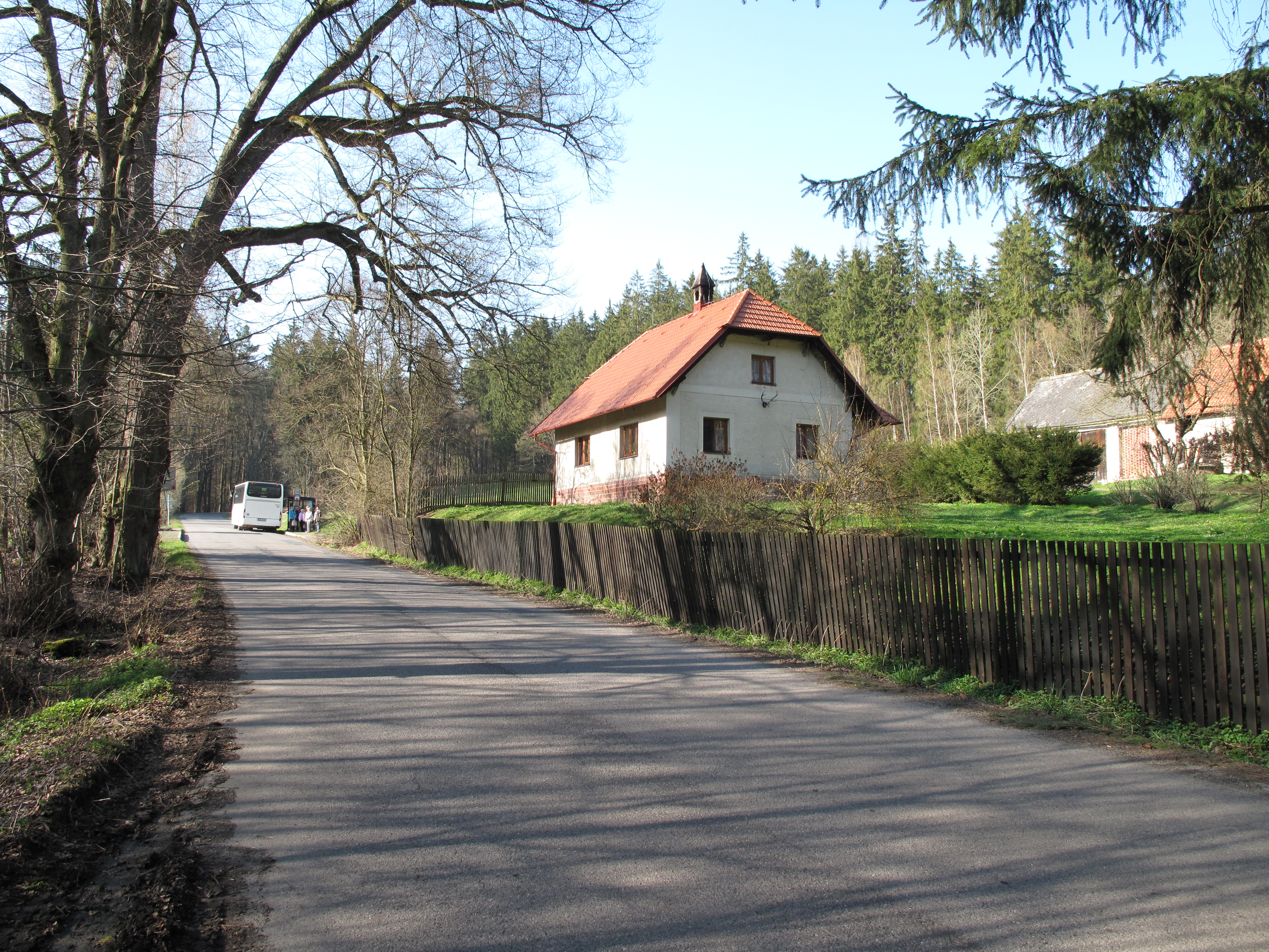 House in former Penčice Village, Prague-East District, Czech Republic. This photograph was taken within the scope of the 'Czech Municipalities Photographs' grant.